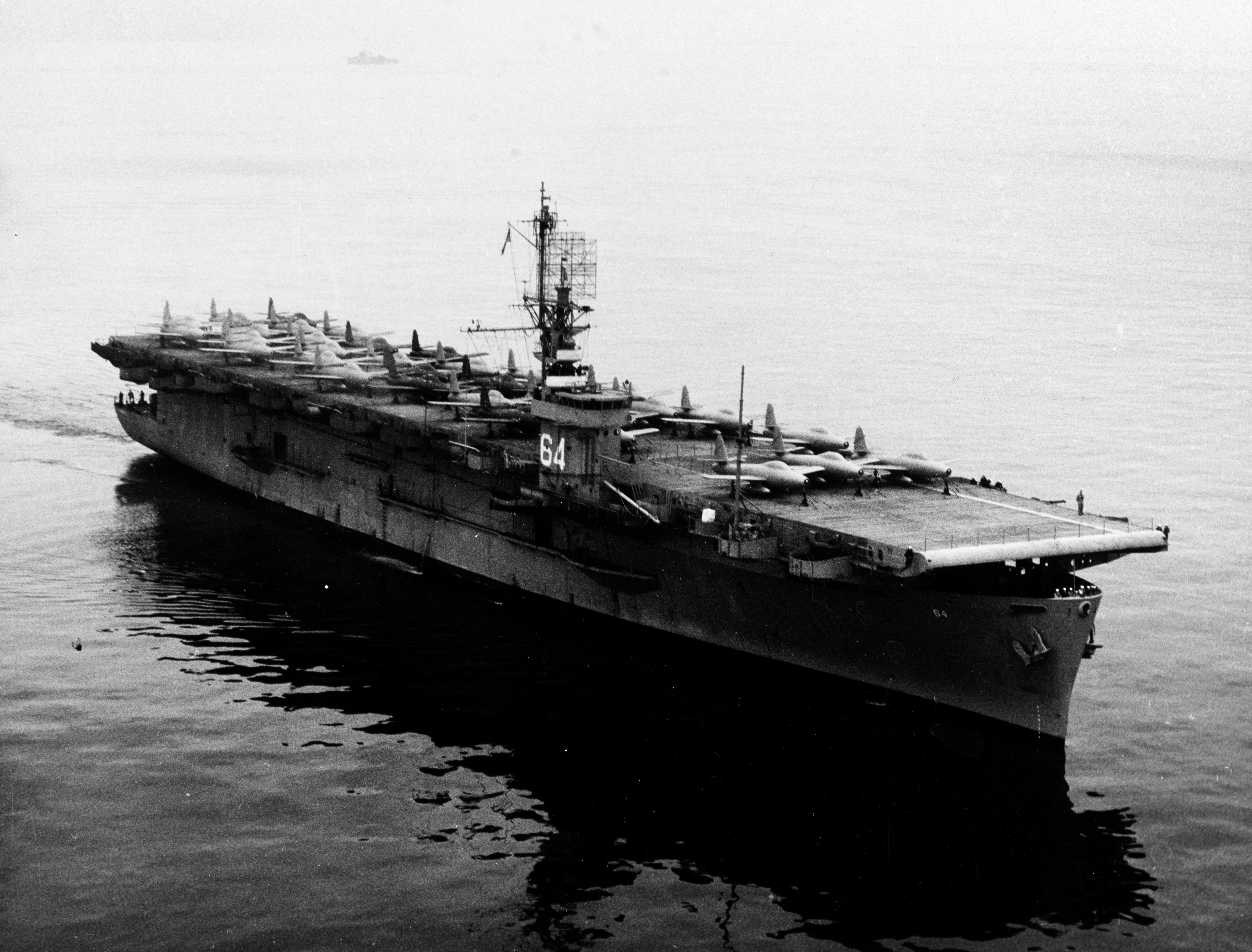 The U.S. Navy escort carrier USS Tripoli (CVE/CVU-64) underway, probably during the middle 1950s, while transporting U.S. Air Force Republic F-84 Thunderjet fighters. Note that Tripoli is still equipped with the World War II-era SK-1 air search radar.